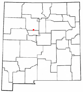 Category:Images of New Mexico